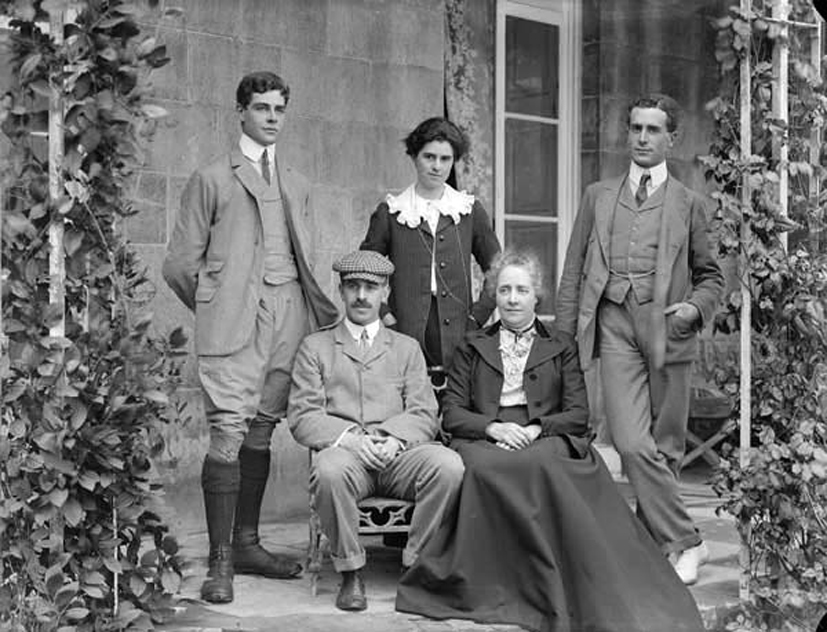 This is the Keane family of Cappoquin House, Waterford. Seated in the cap is Sir John Keane (1873-1956), 5th Baronet. His successor, Richard, is not pictured here. However, the second and third sons are - George (right) and Frederick (left). Unfortunately have no names for the wife(?) and daughter. Cappoquin House was burnt in 1922, but was later restored by Sir John Keane, who used moulds from London to reproduce the internal plasterwork. Date: 3 September 1902 NLI Ref.: P_WP_1274